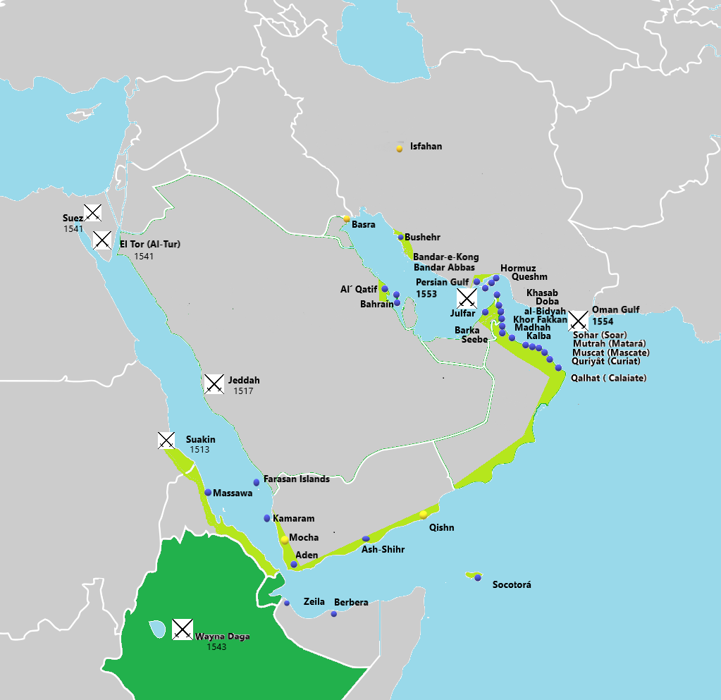 Portuguese Presence in the Region 16th and 17th centurys